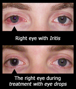 Myself with a case of Iritis of the right eye. Images show the eye with the initial problem and the eye during treatment with steroid anti-inflammatory eye drops and dilating eye drops. Dilation of the pupil (as a result of the on-going treatment) is clearly shown in the second image.